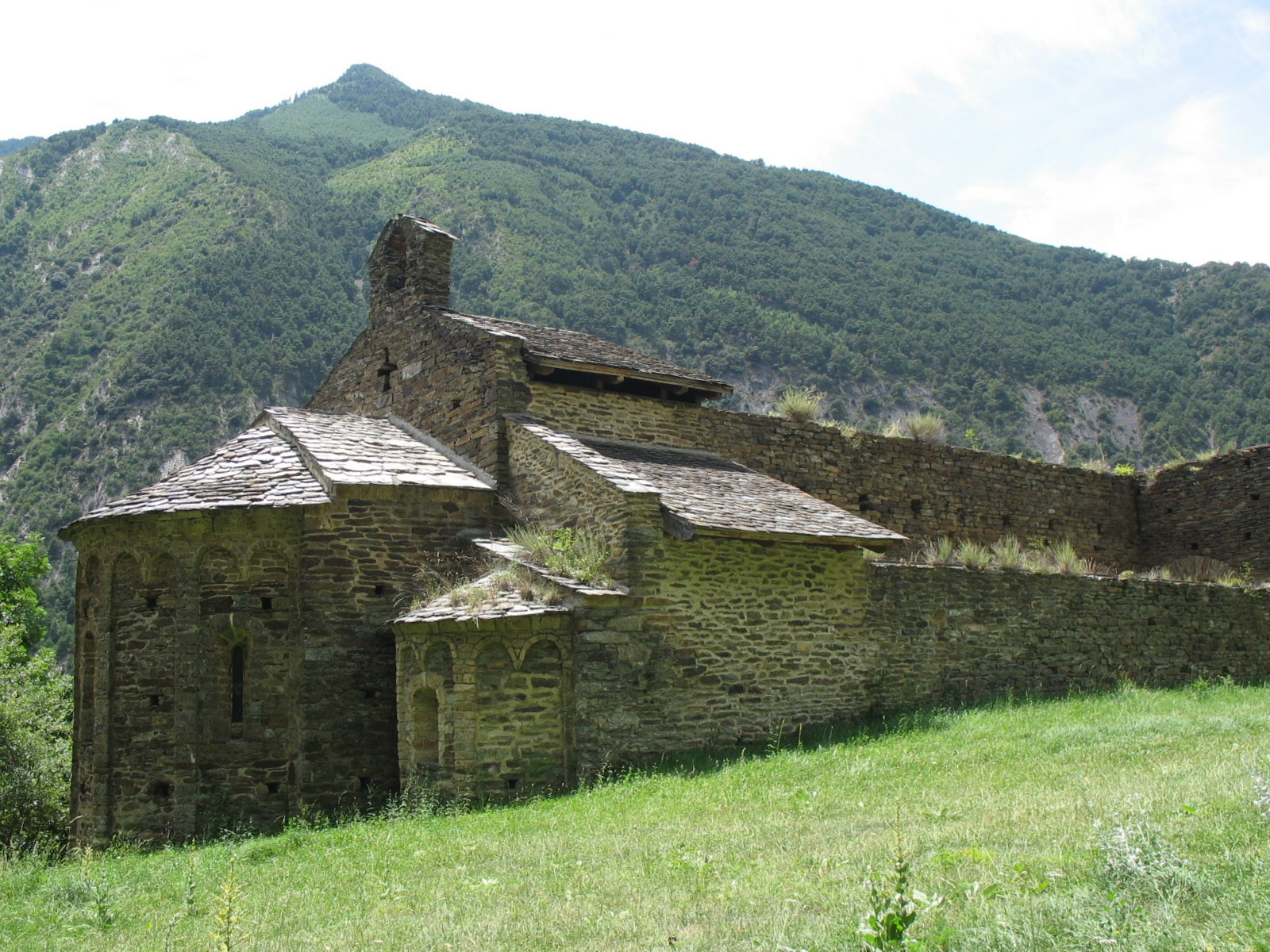 Monastery of Saint Peter of Burgal (Escaló, La Guingueta d'Àneu, Lleida, Spain)